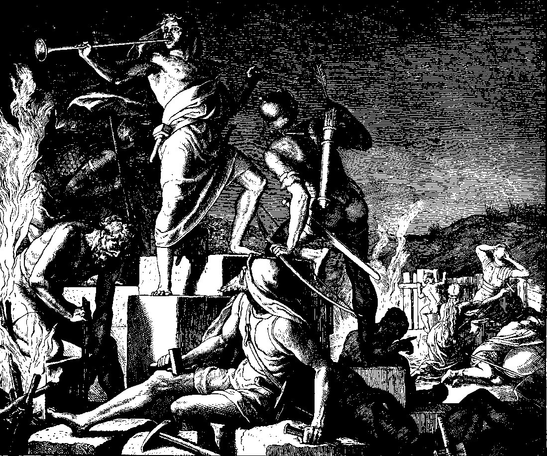 Woodcut for "Die Bibel in Bildern", 1860. Rebuilding the Jerusalem Wall